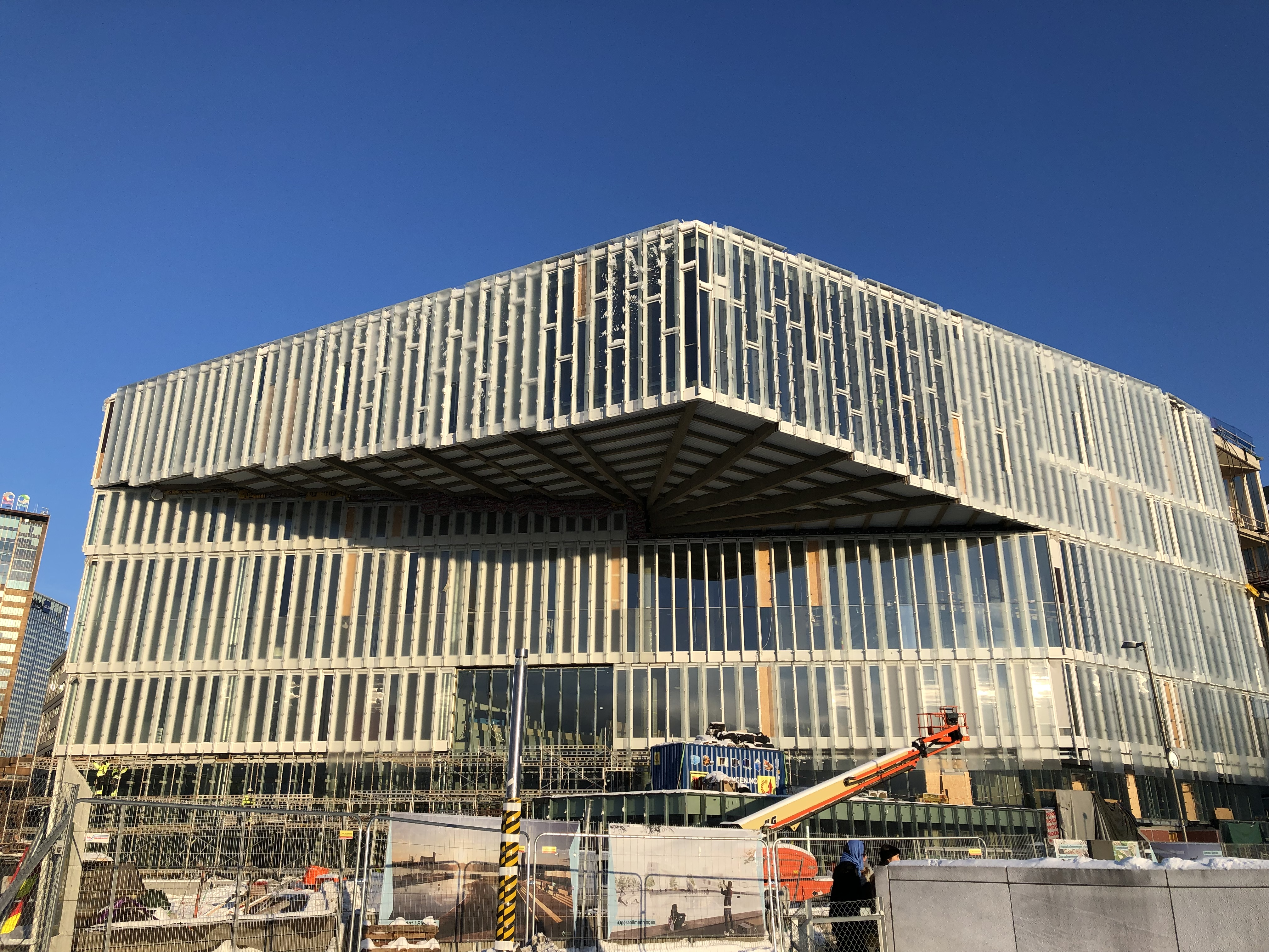 Construction of new Deichman library in Bjørvika in Oslo.